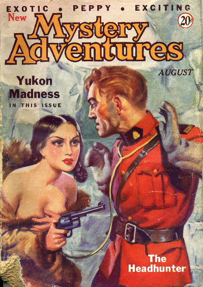 New Mystery Adventures, August 1935